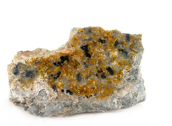 Uranophane - alpha Locality: Rössing Mine, Arandis, Swakopmund District, Erongo Region, Namibia (Locality at ) Sharp, extremely gemmy crystals of this rare uranium species to 3 mm on contrasting quartz matrix. Just a beautiful piece, and extremely fine of the crystallography here . The species normally occurs as acicular needles, not as 3-D crystals with real terminations! 5.7 x 3.4 x 2.1 cm